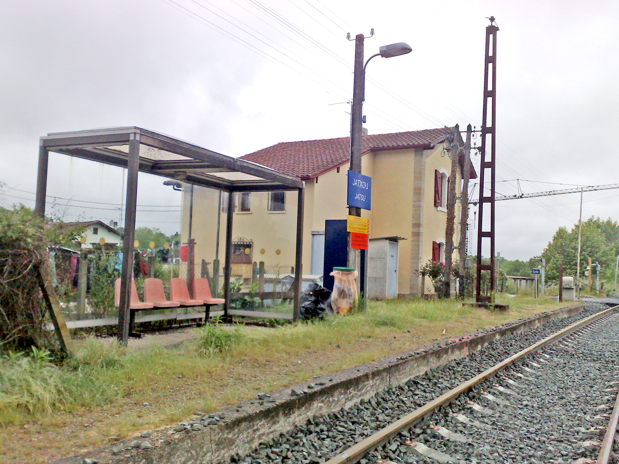 Overall view of Jatsu train station, Uztaritze, Lapurdi-Labourd, Basque Country.